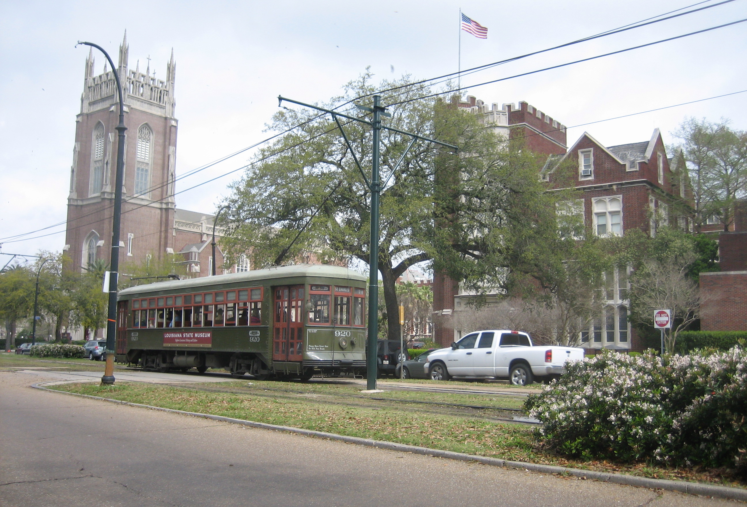 New Orleans: Streetcar passing Loyola University campus on St. Charles Avenue.